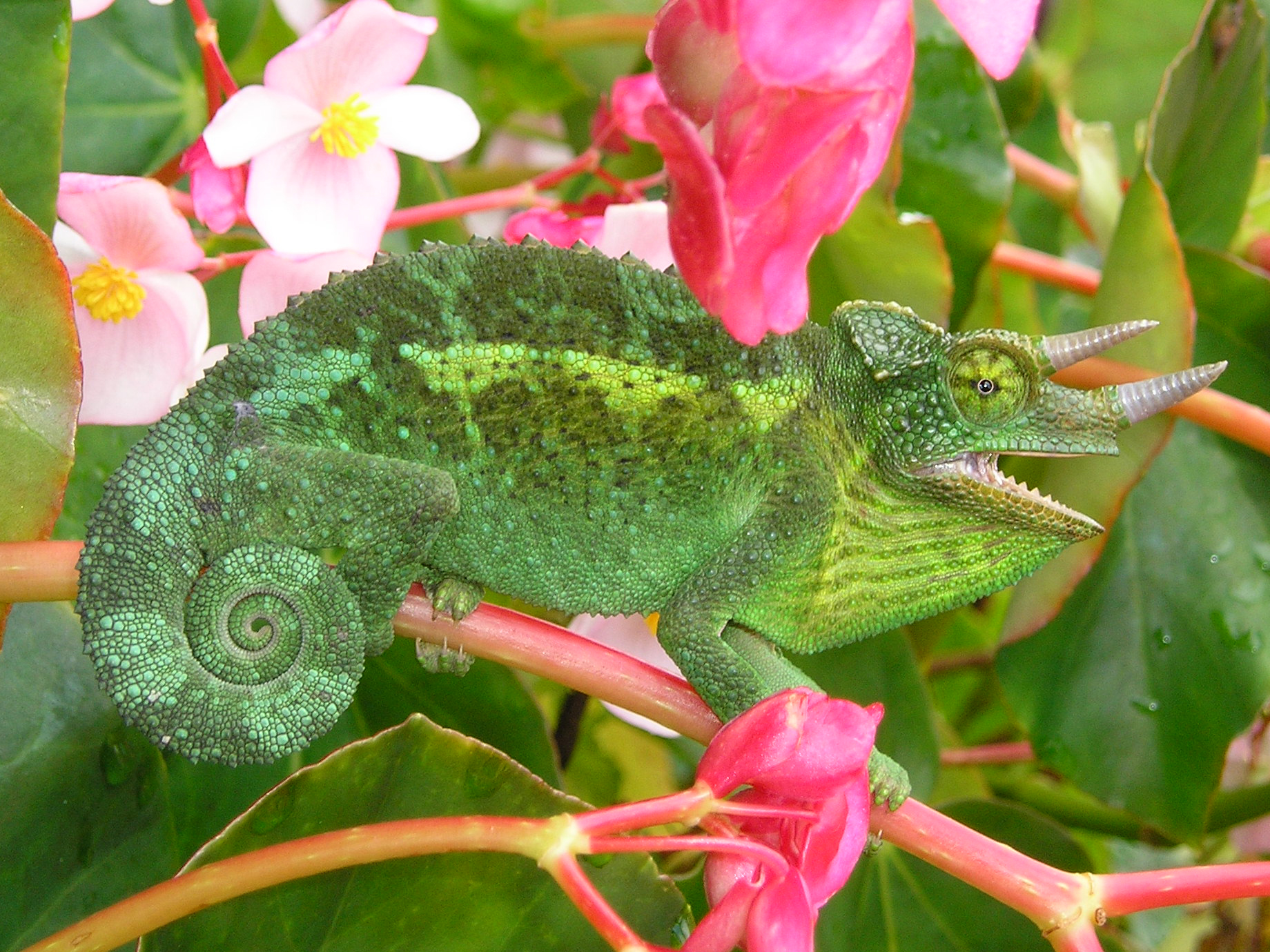 I photographed this feral Jackson's Chameleon on the island of Maui, Hawaii. Rich Torres, Burlingame, Calif.